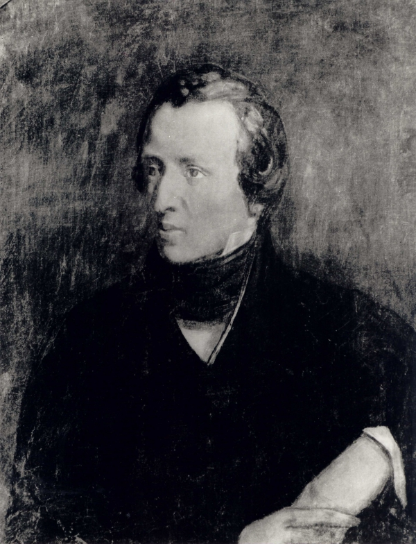 Portrait of Frederic Chopin Antoni Kolberg (1815-1882) 1848 Oil/Canvas Signature: on the back: Portret Fryderyka Chopina oryginał malowany z natury w Paryżu w r. 1848 przez Antoniego Kolberga Height: 67,50 cm Width: 53,50 cm